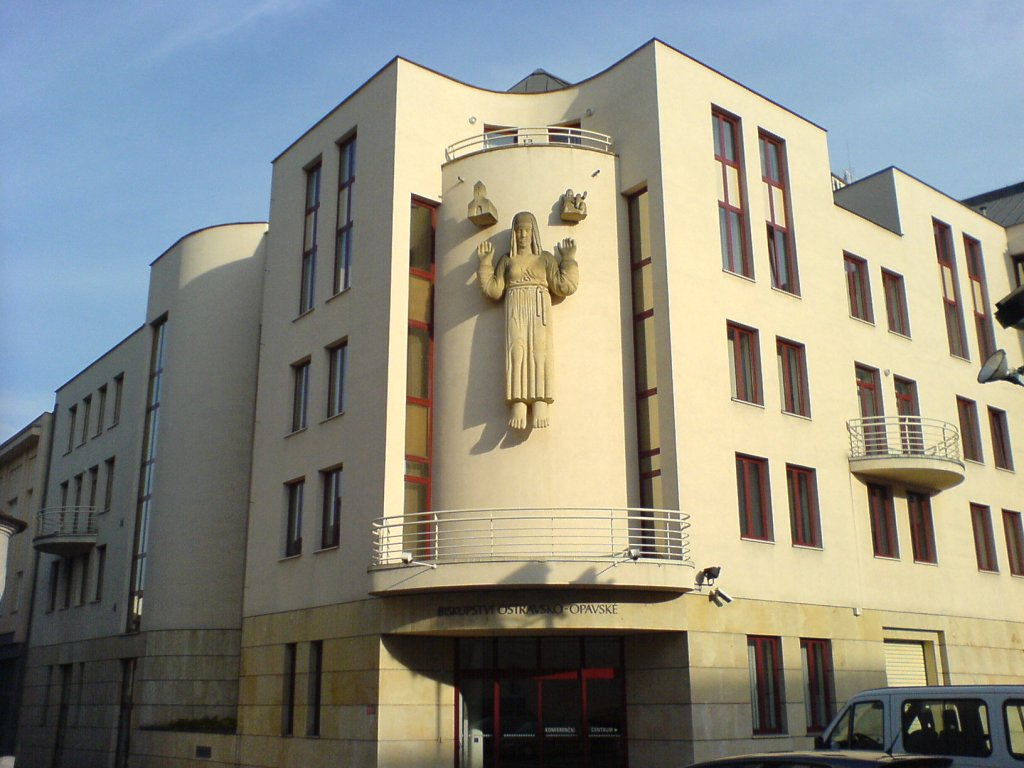 Building of Ostrava-Opava episcopate, Ostrava.